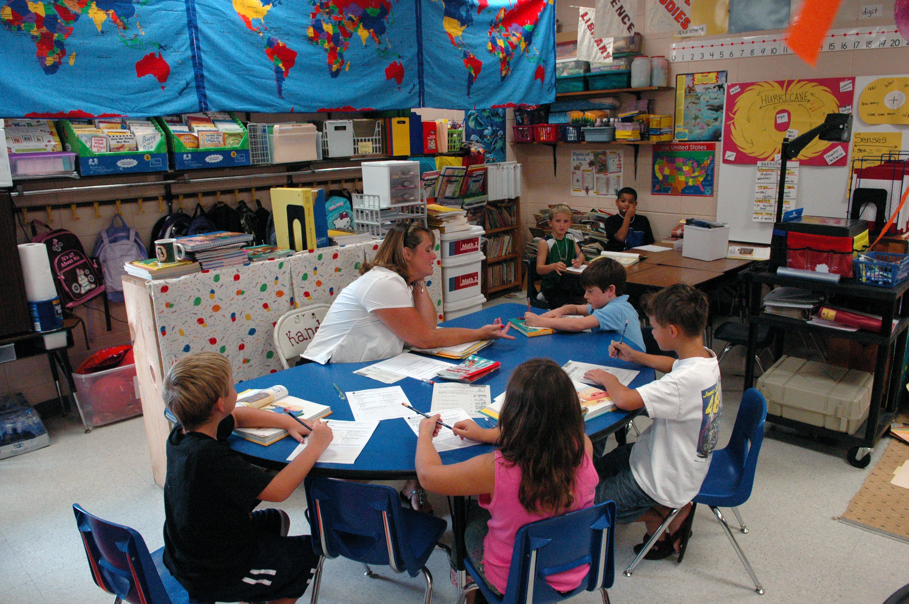 D'Iberville, Miss., August 16, 2006 -- Students are now back in school after several schools along the Mississippi coast were destroyed or heavily damaged by Hurricane Katrina. Mark Wolfe/FEMA